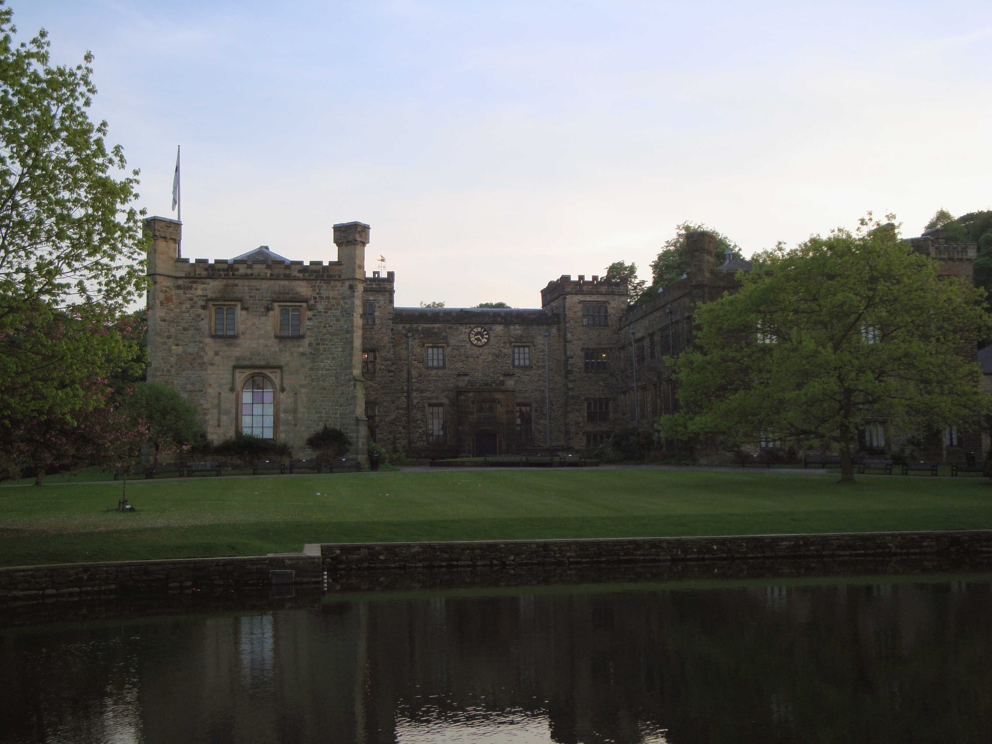 Taken by User:Childzy Edited by Fir0002